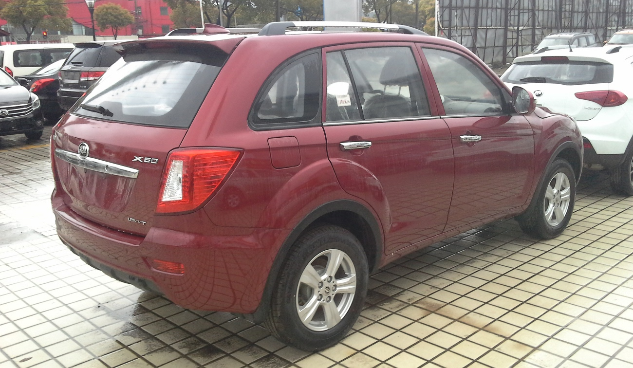 Lifan X60 photographed in Shanghai, China.